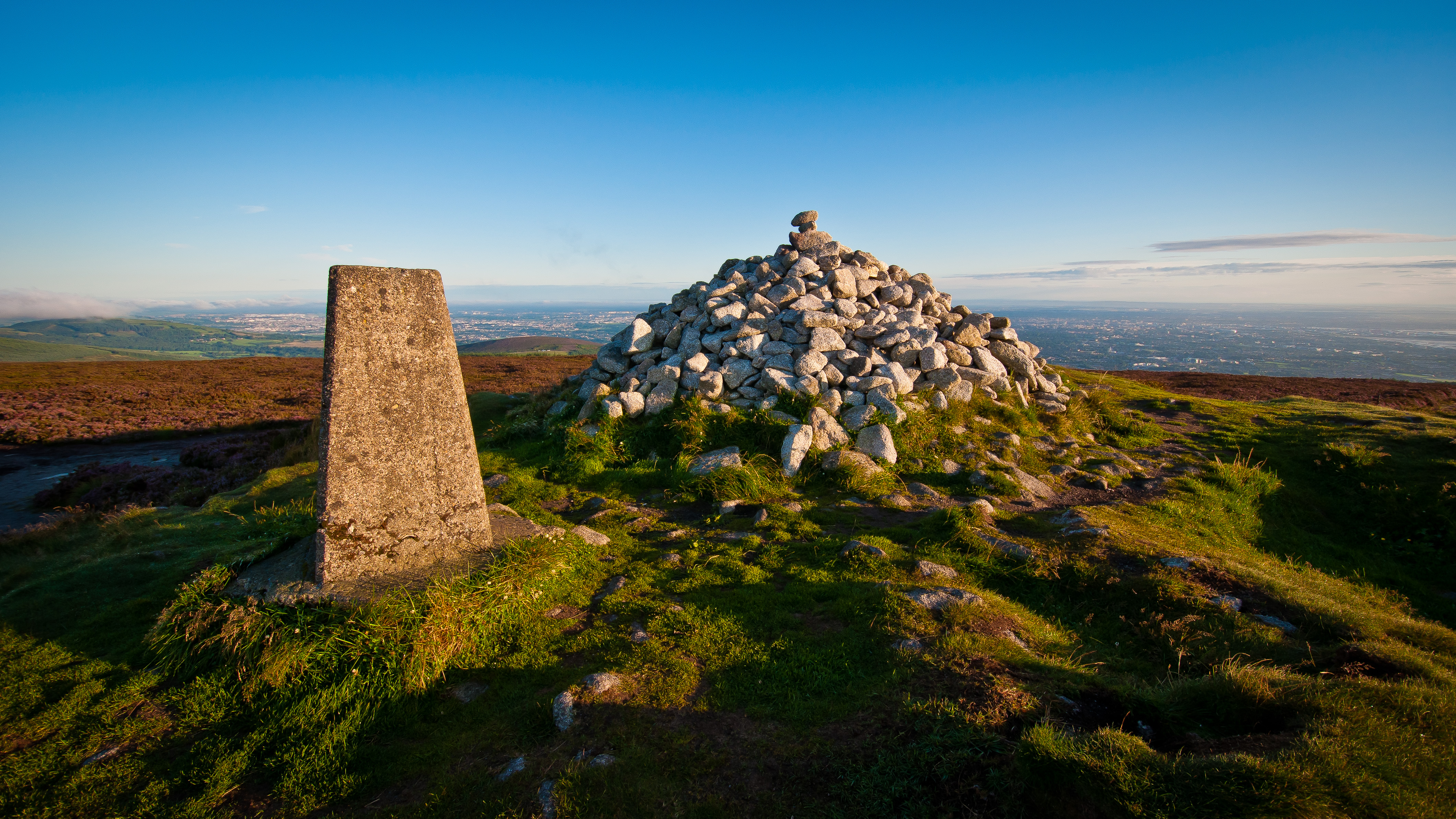 Cairn and trig pillar at Fairy Castle, the summit of Two Rock Mountain, County Dublin, Ireland